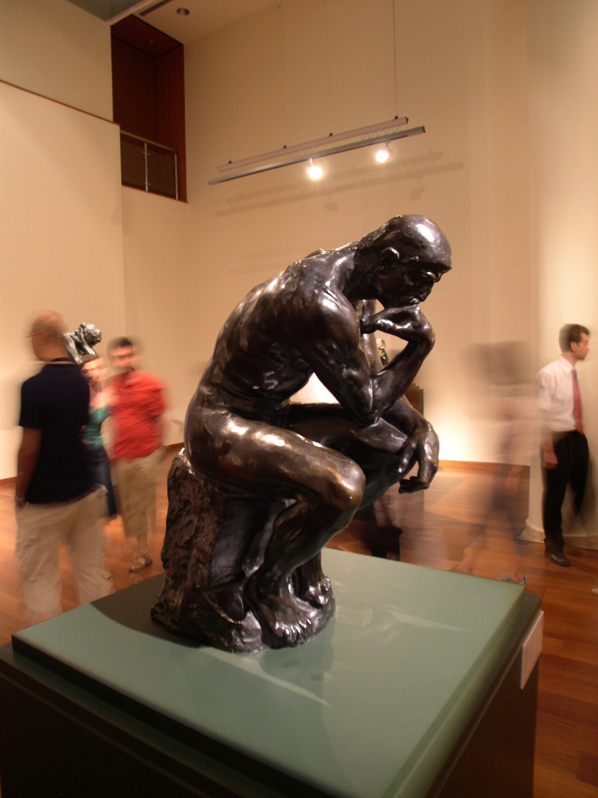 Author: Ahmet Necati Uzer Sakıp Sabancı Museum, Istanbul-TURKEY Rodin Exhibition This work is licensed under a Creative Commons Attribution-NonCommercial-NoDerivs 2.5 License .